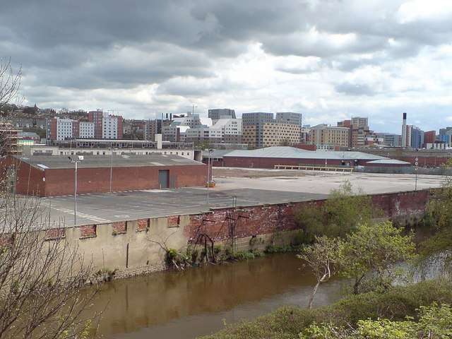 Former Arla Foods site, Kirkstall Road, Leeds, West Yorkshire, England. Seen across the River Aire from the towpath of the Leeds & Liverpool Canal. The site has been unused since 2006, and is now being cleared for redevelopment. Meantime, Yorkshire Television have occasionally used it for filming - very convenient as their studios are just across Kirkstall Road.